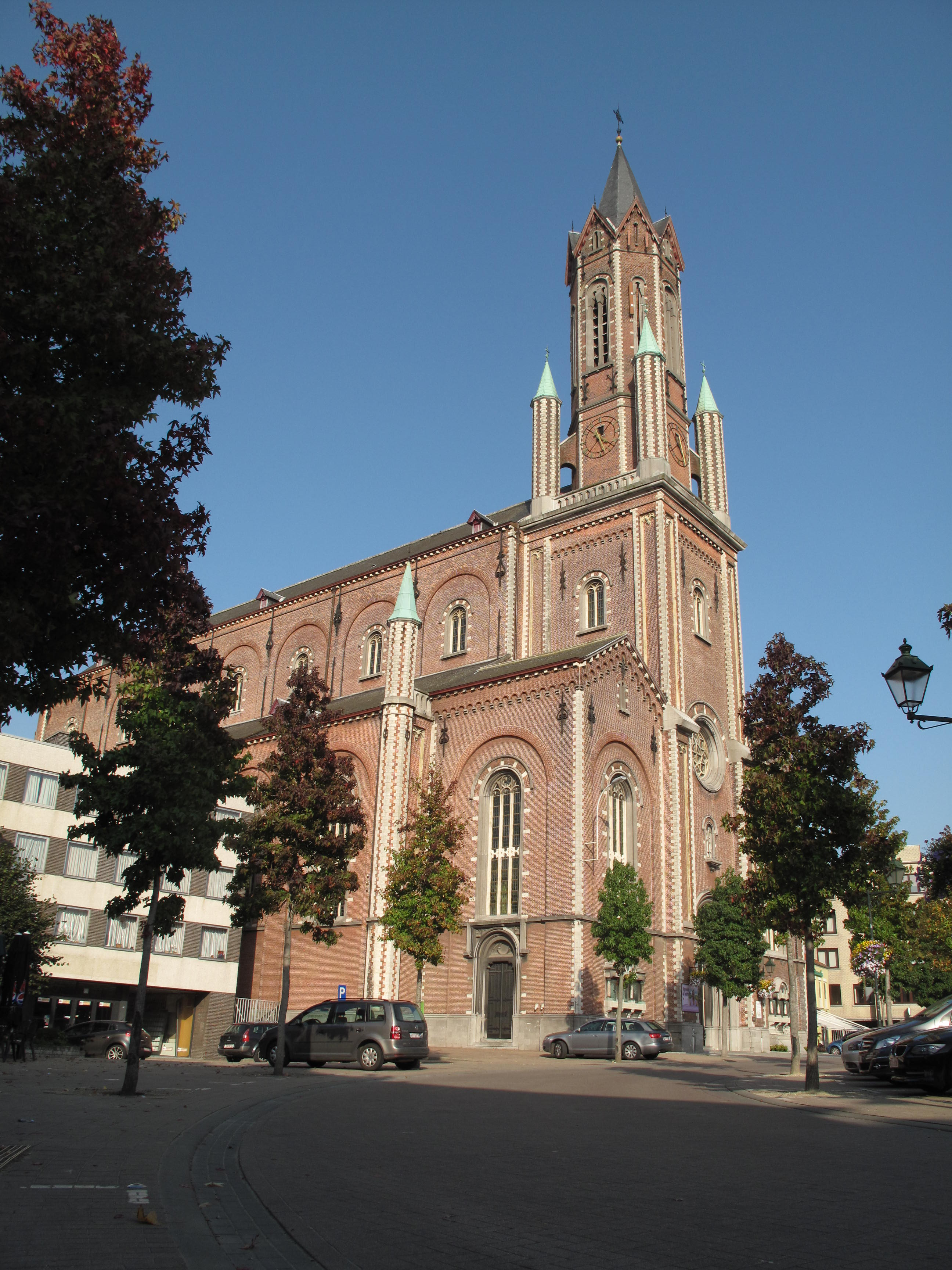 Wetteren, church: Sint Gertrudeskerk